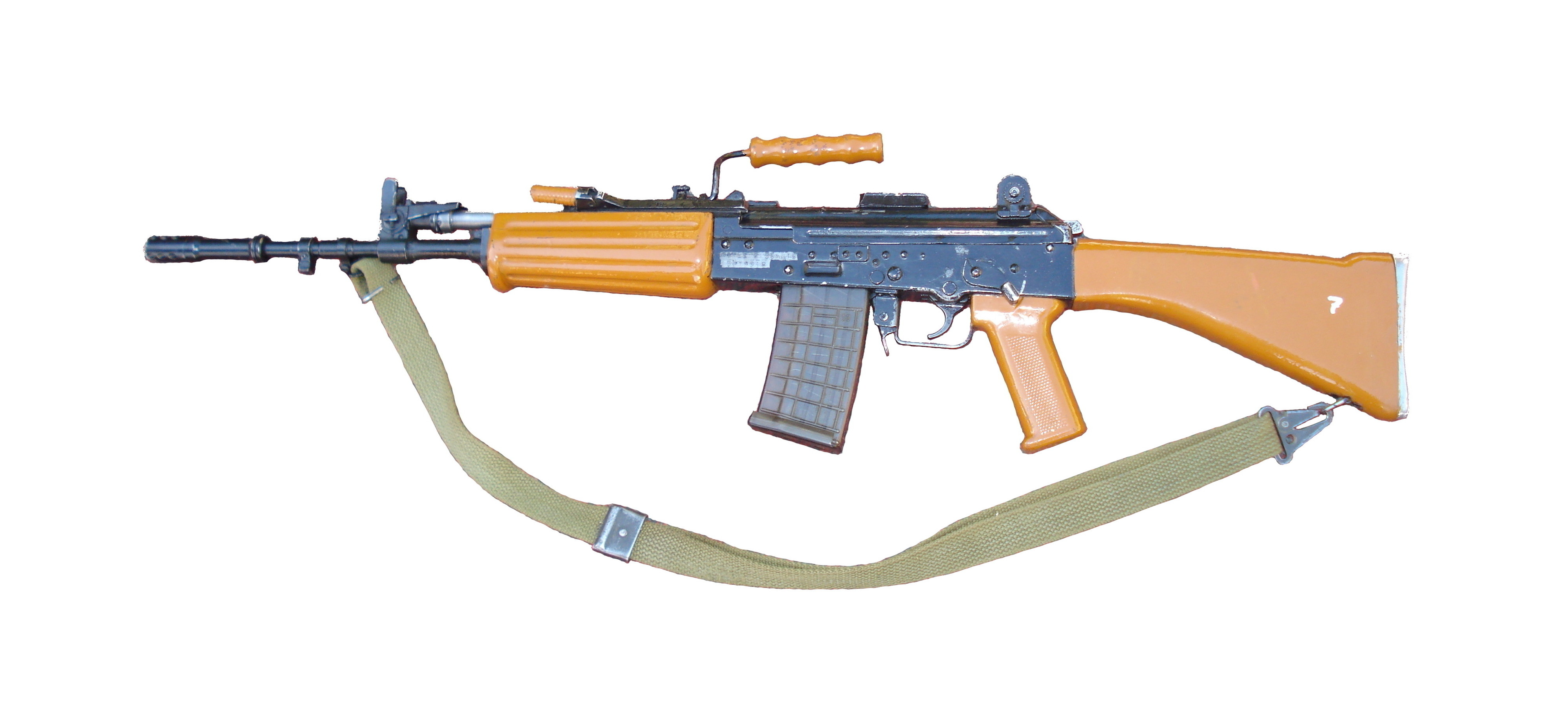 INSAS rifle, Indian Army service rifle